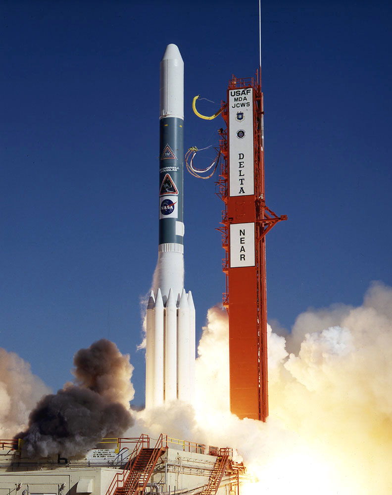 Orginal Full Description: The Near Earth Asteroid Rendezvous (NEAR) spacecraft embarks on a journey that will culminate in a close encounter with an asteroid. The launch of NEAR inaugurates NASA's irnovative Discovery program of small-scale planetary missions with rapid, lower-cost development cycles and focused science objectives. NEAR will rendezvous in 1999 with the asteroid 433 Eros to begin the first long-term, close-up look at an asteroid's surface composition and physical properties. NEAR's science payload includes an x-ray/gamma ray spectrometer, an near-infrared spectrograph, a laser rangefinder, a magnetometer, a radio science experiment and a multi-spectral imager.